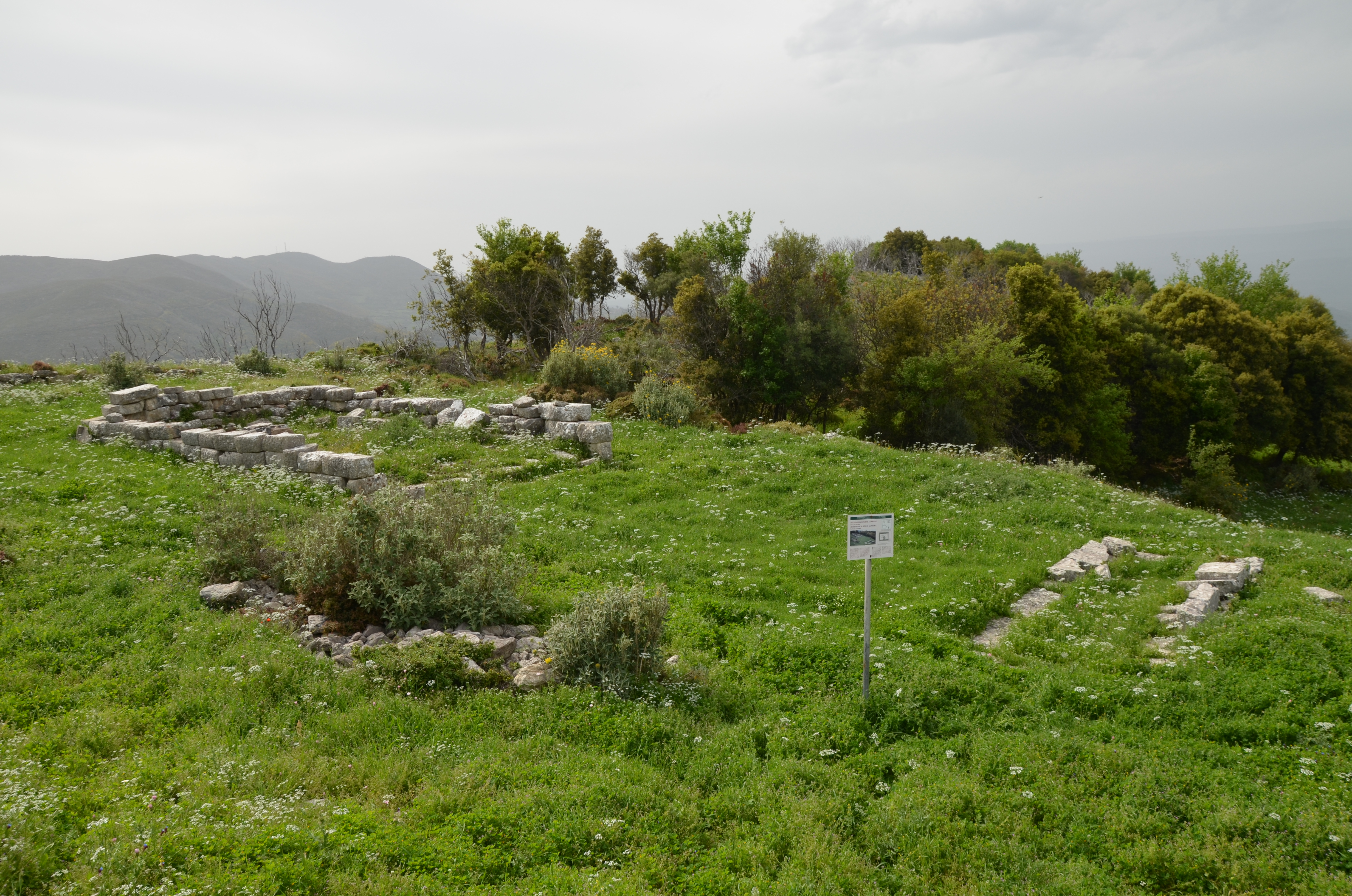 Temple of Asklepios, built in the late 4th century BC, it consists of a porch and cella with the base of the statue cult preserved in the cella, east of the temple is the base of the altar Alipheira, Greece